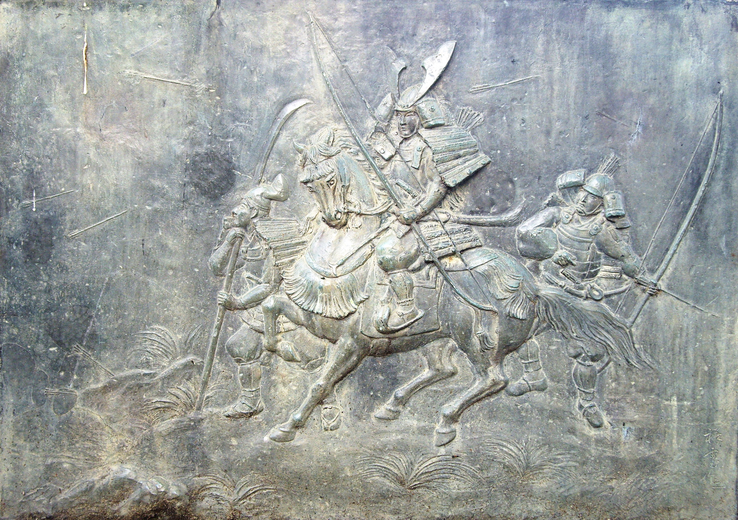 The relief of Prince Yoshinari